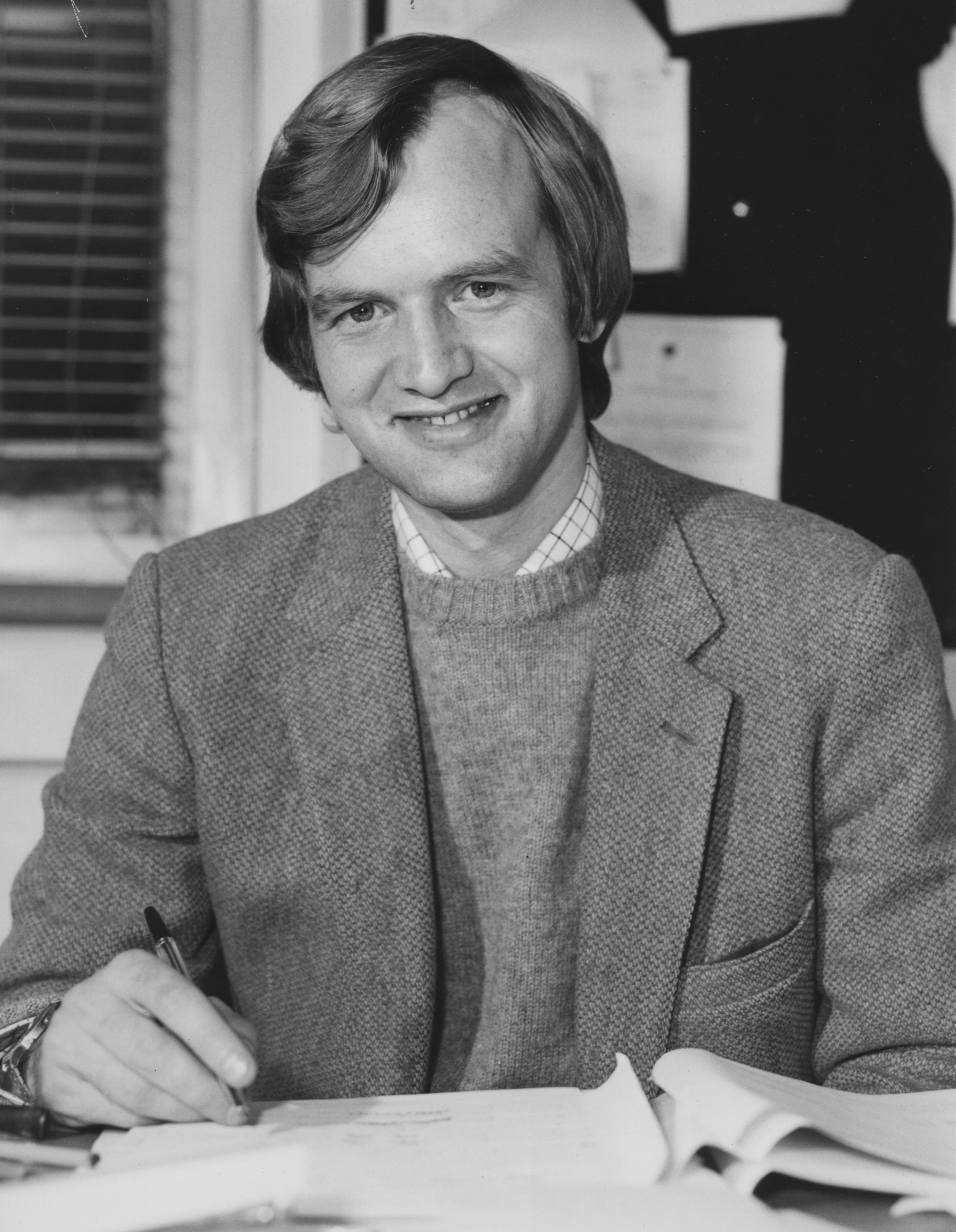 LSE European Institute Extract from: ‘Professorial Appointments: Willem Buiter,’ in LSE Magazine, November 1982, No42, p.4 William Buiter has been appointed Cassel Professor of Economics with special reference to money and banking from 1 April 1982, having previously been at the LSE during 1976-77 (as a lecturer in the Department of Economics). He took his first degree in 1971 at Emmanuel College, Cambridge and his PhD at Yale University in 1975. From 1975-6 and 1977-9 he was an Assistant Professor of Economics and International Affairs at the Woodrow Wilson School of Princeton University. From 1980 until his appointment at LSE he was Professor of Economics at the University of Bristol. Since 1977 he has been a Research Associate of the National Bureau of Economic Research. IMAGELIBRARY/609 Persistent URL